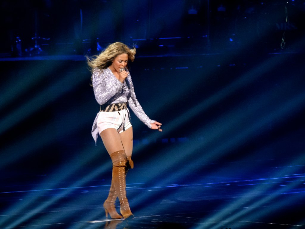 Beyonce performing "Halo" live in Montreal in 2013 during The Mrs. Carter Show World Tour.